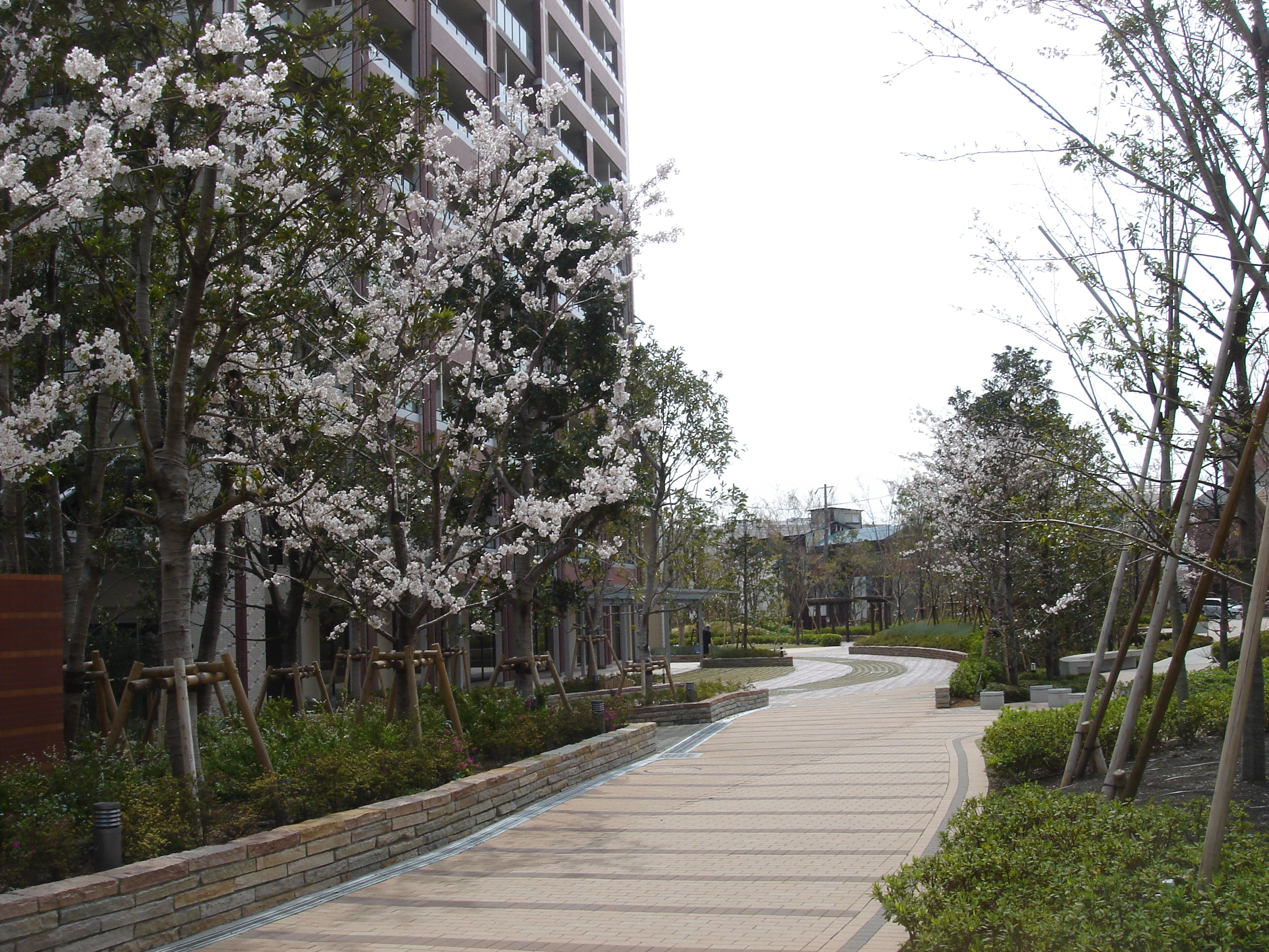 NAKAMARUKO Apartment houses